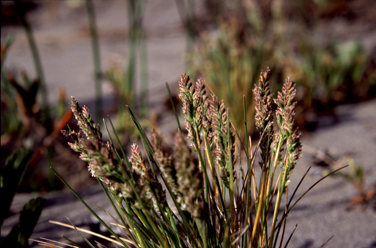 Poa confinis at Humboldt Bay National Wildlife Refuge Complex, California, USA